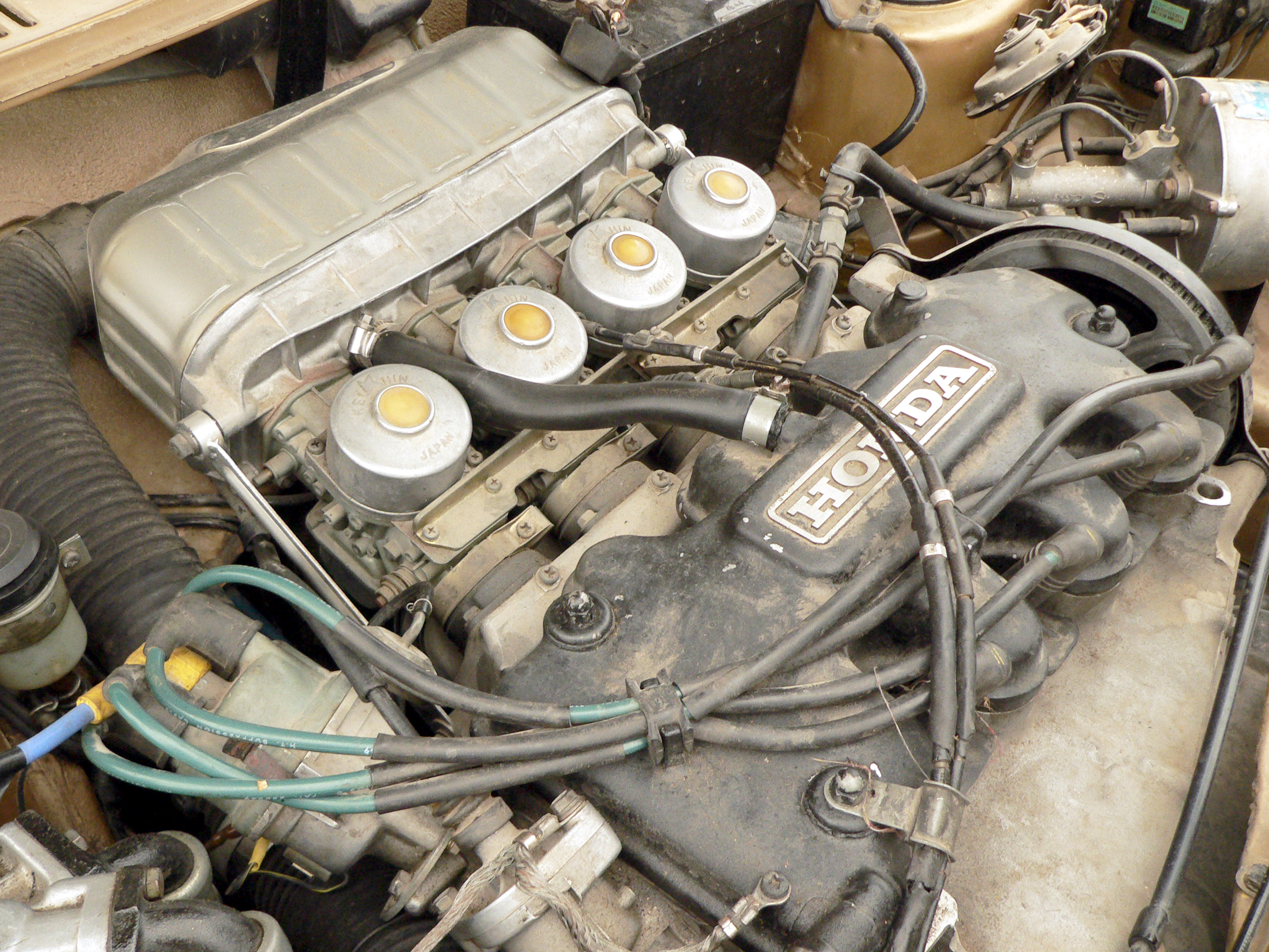 Honda's DDAC engine with four carburettors of Coupe 9